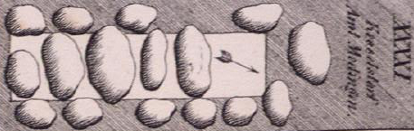 Megalithic tomb near Kettelstorf, Sprockhoff-No. 769